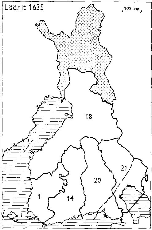 Finnish counties 1635 1 Åbo and Björneborg, 14 Nyland and Tavastehus, 20 Viborg and Nyslott, 21 Kexholm, 18 Ostrobothnia